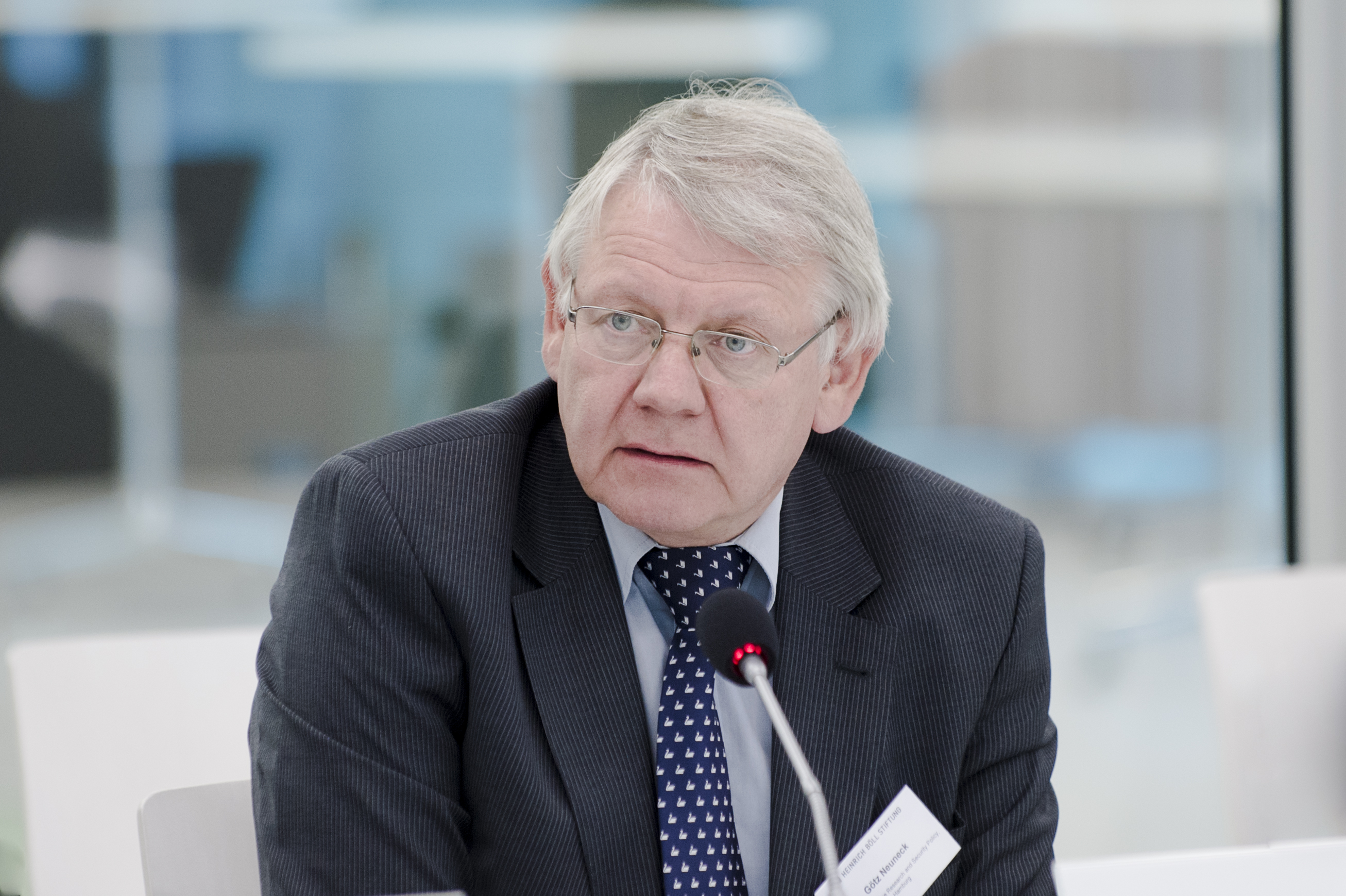 Götz Neuneck, Institut for Peace Research and Security Policy, Hamburg, Bild: Isis Martins